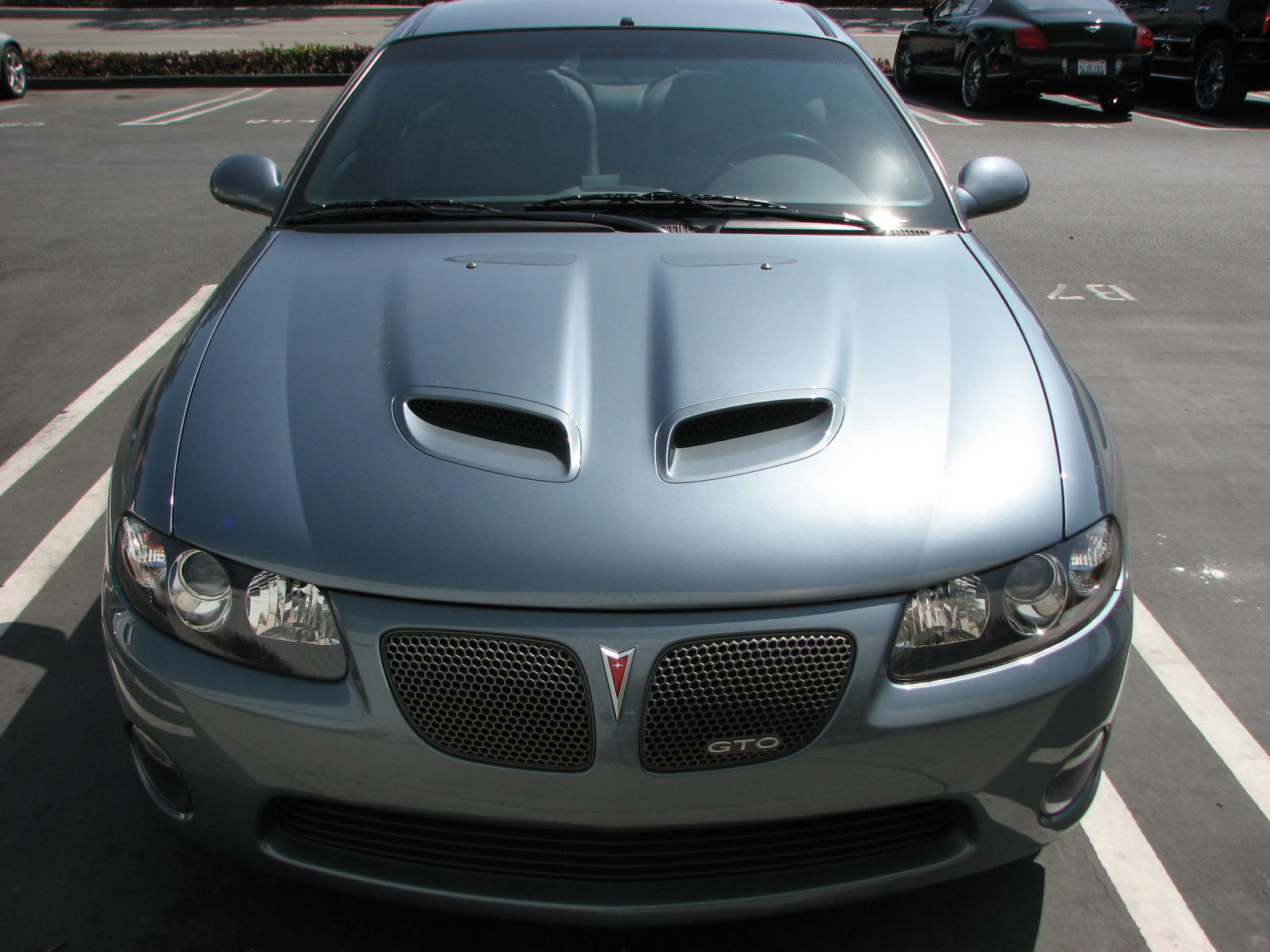 Saw this when in LA, a 2007 Pontiac GTO 6.0 litre V8 coupe, reminded me of home, spoke to the owner, he paid $27,000 US for it, when I told him how much they were back home he almost fell over!